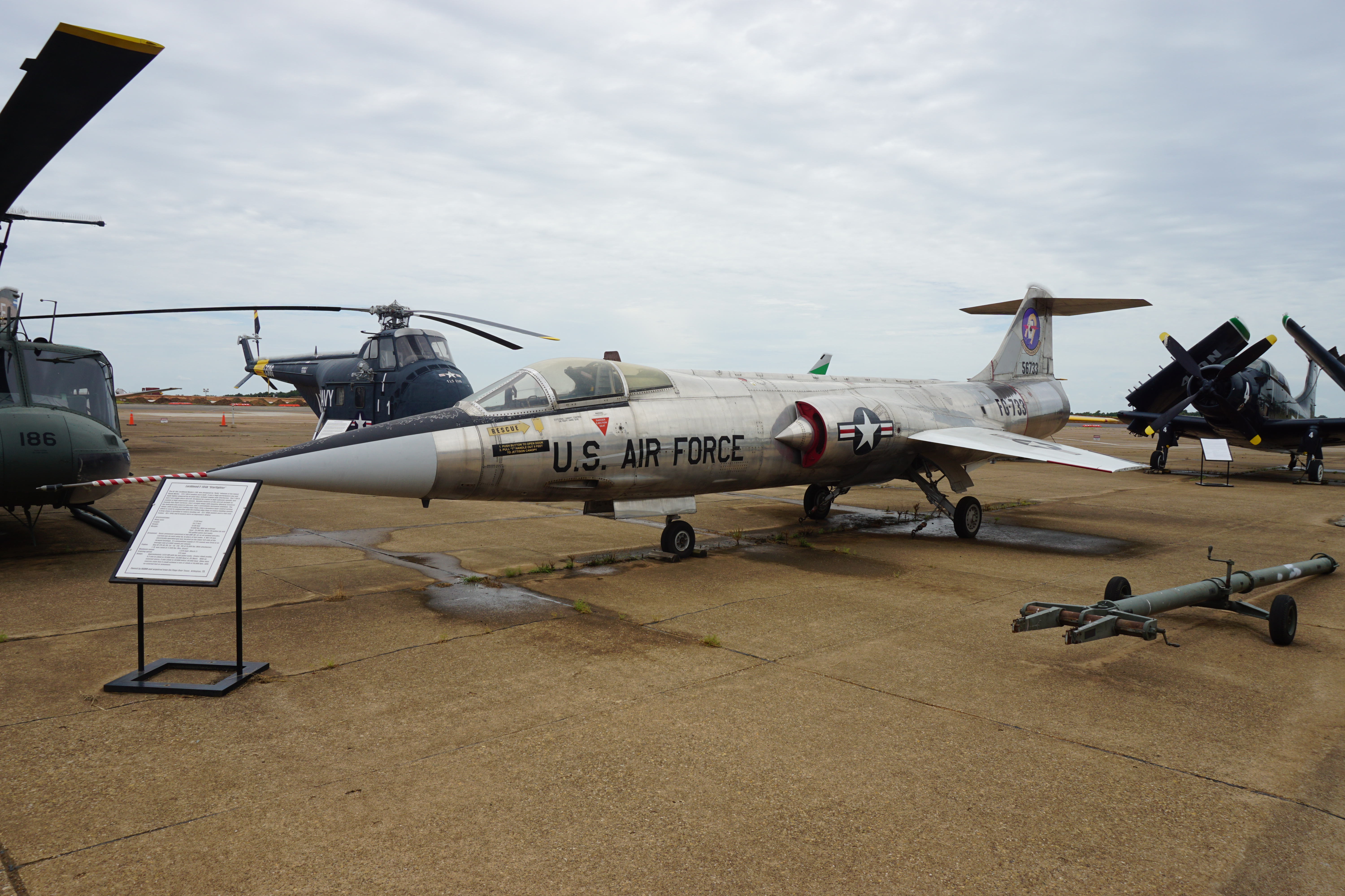 A Lockheed F-104A Starfighter on display at the Historic Aviation Memorial Museum at Tyler Pounds Regional Airport near Tyler, Texas (United States).